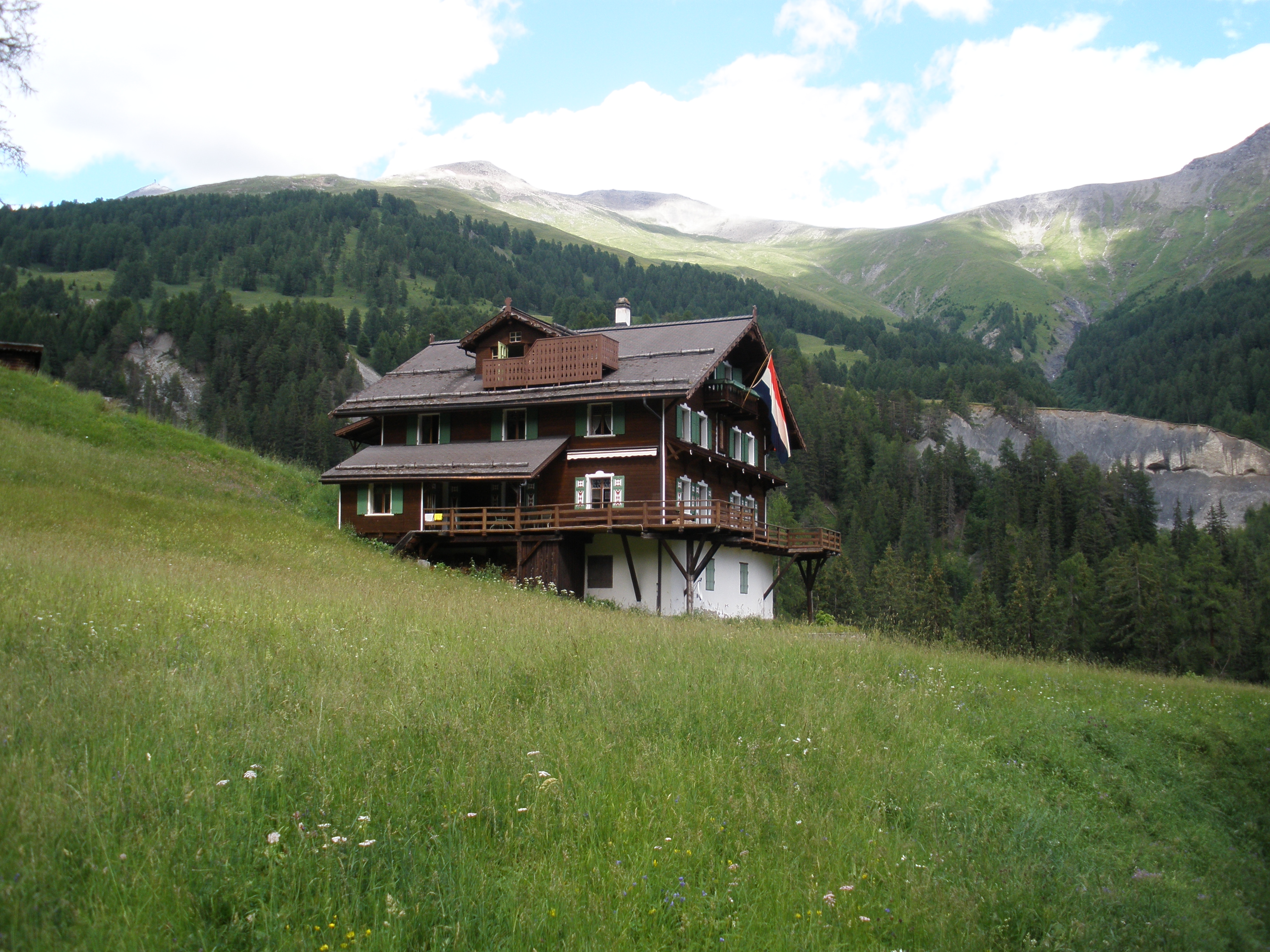 The Chasa Mengelberg, the private chalet of conductor Willem Mengelberg (1871-1951), in Zuort, Graubünden, Switzerland.